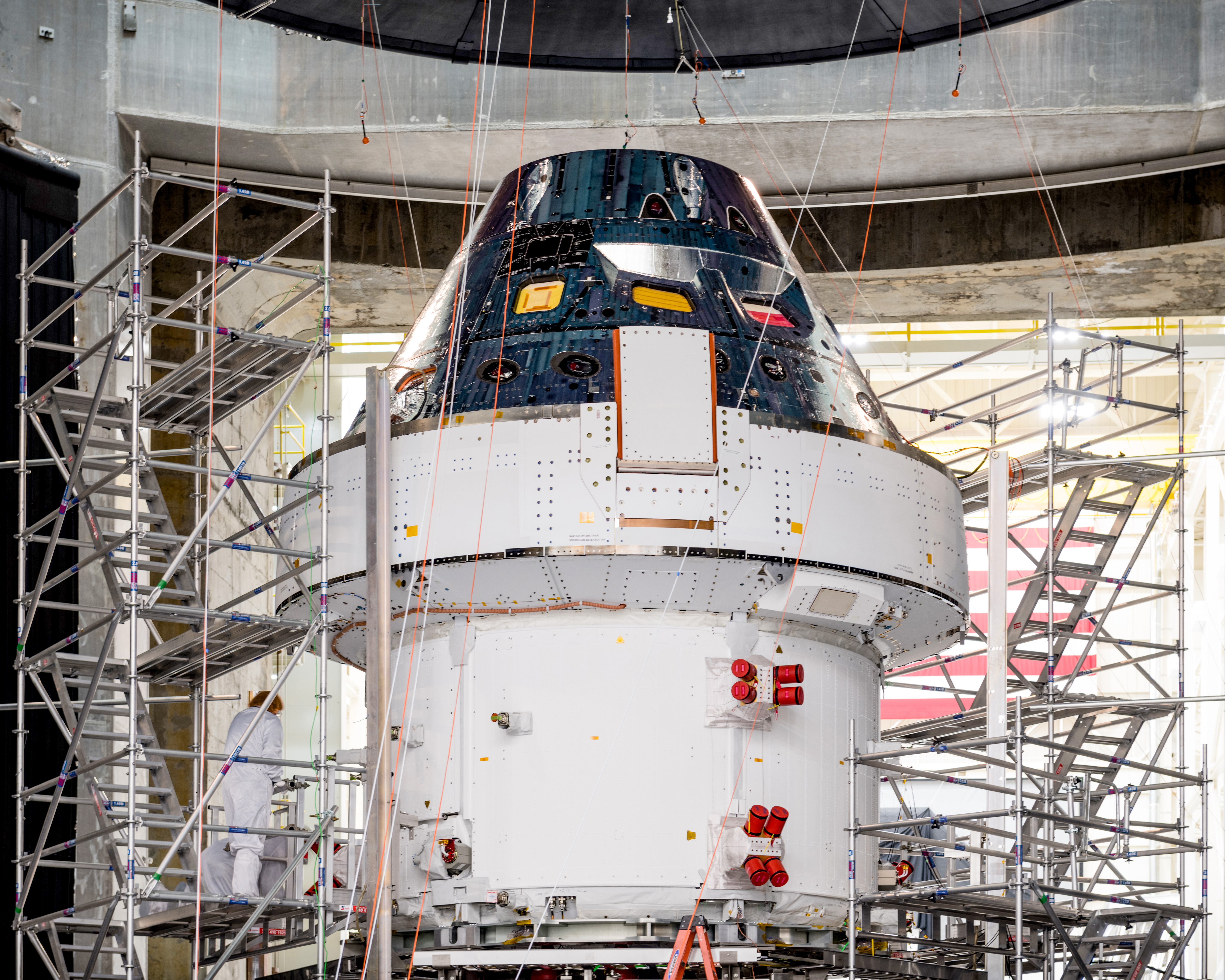 The Artemis I Orion spacecraft is prepared for the final set of environmental tests at NASA Glenn Research Center Plum Brook Station in Sandusky, Ohio.